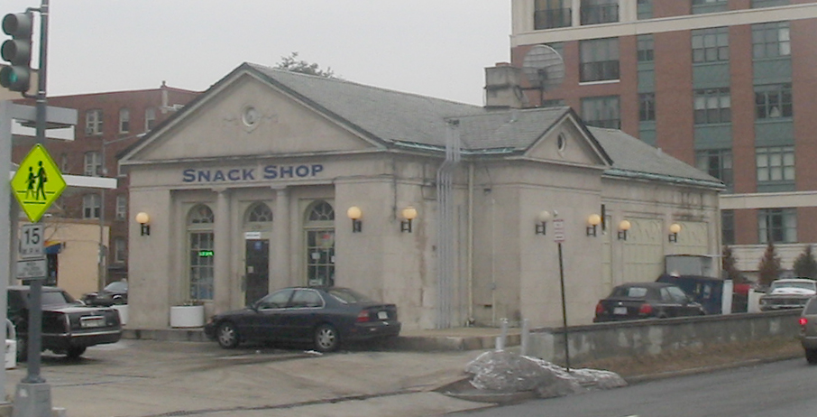 Embassy Gulf Service Station